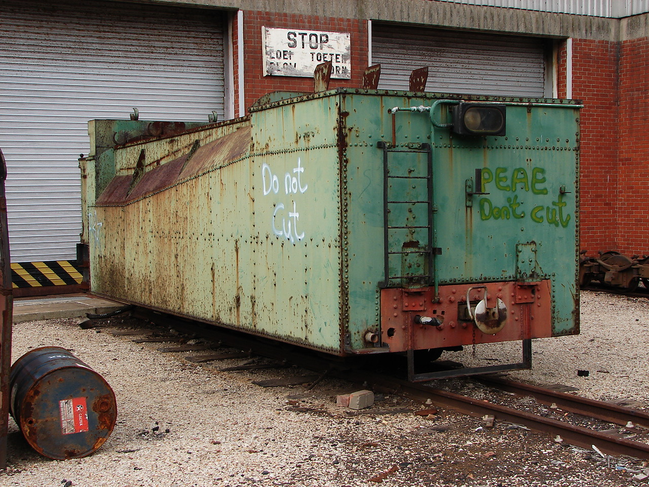 SAR Class NG15 no. 124 (2-8-2) tenderLocation: Humewood Road, Port Elizabeth, Eastern Cape